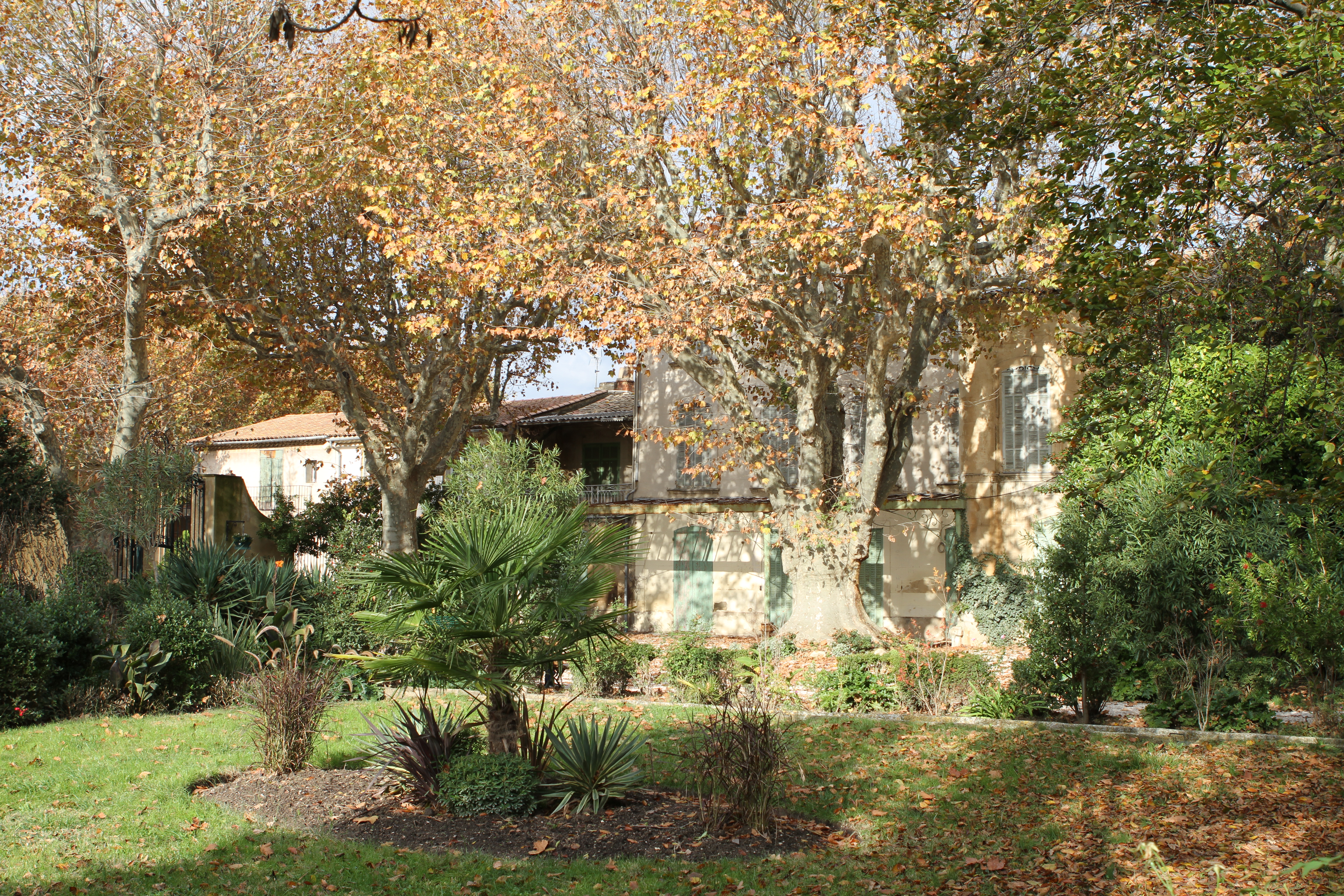 The park Maureau at Pélissanne (Bouches-du-Rhône, France)